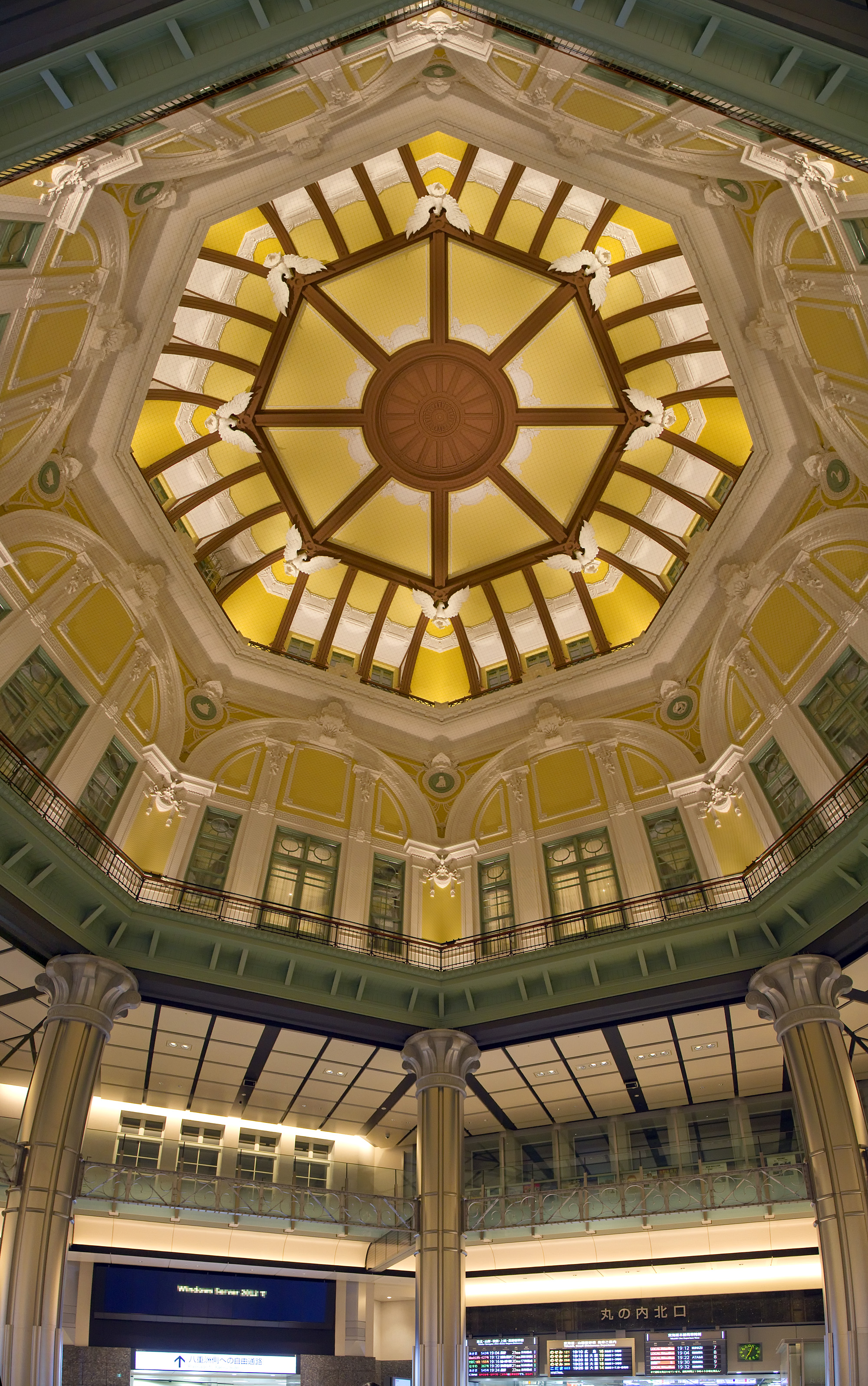 The dome interior (after restoration) in the Tokyo Station (Marunouchi building).